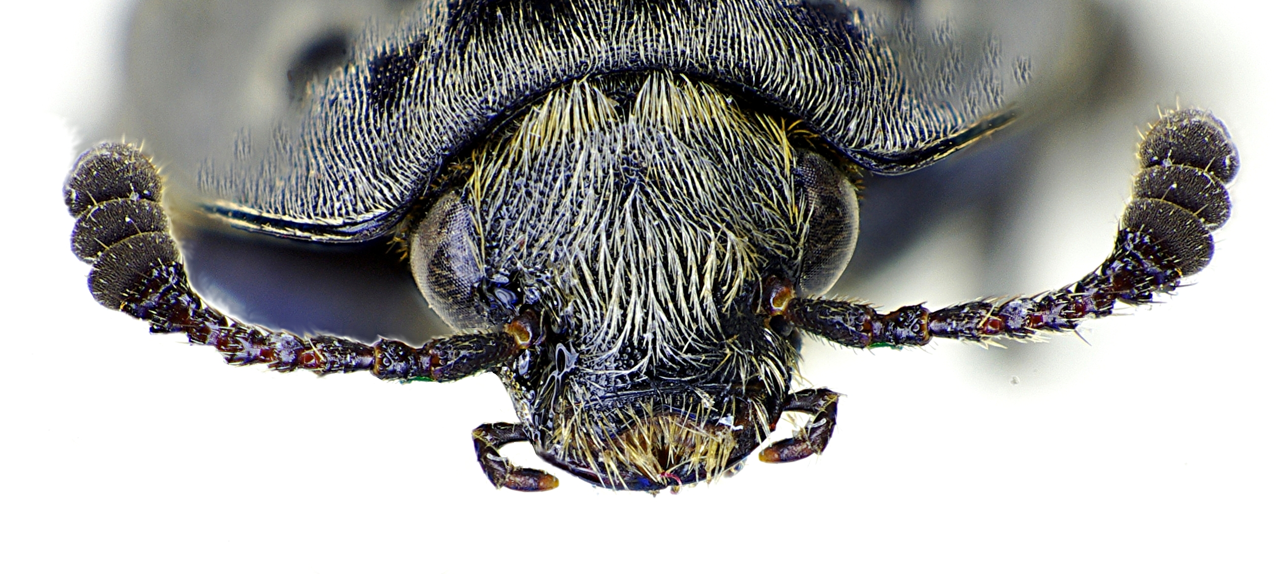 front of Thanatophilus sinuatus